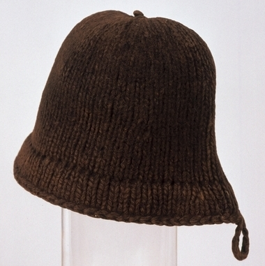 This Monmouth Cap is on display at Monmouth Museum (The Nelson Museum & Local History Centre, Monmouth)